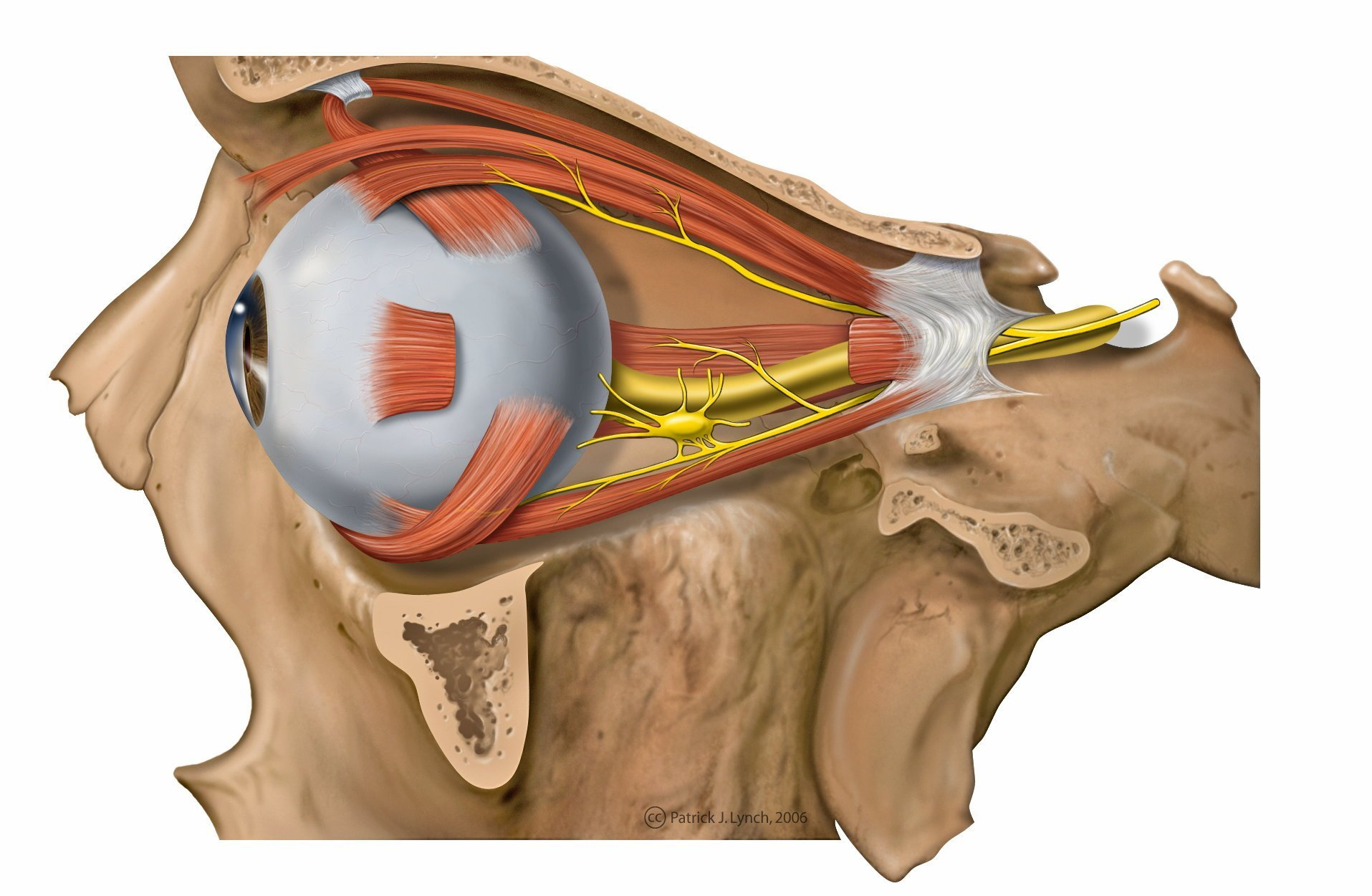 Lateral eye and orbit anatomy with nerves